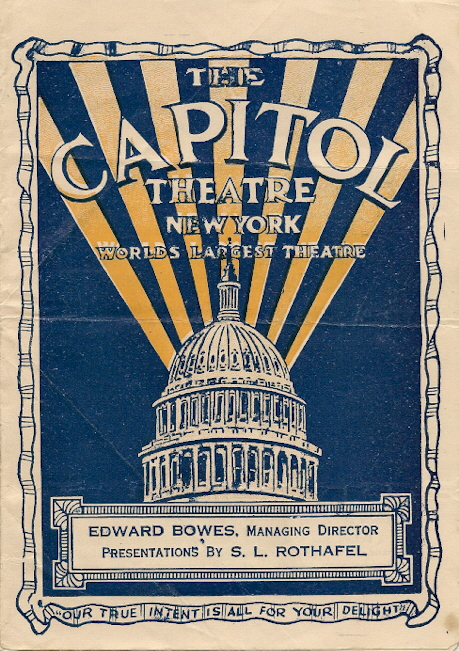 A brochure from 1922 for the Capitol Theatre in New York City.